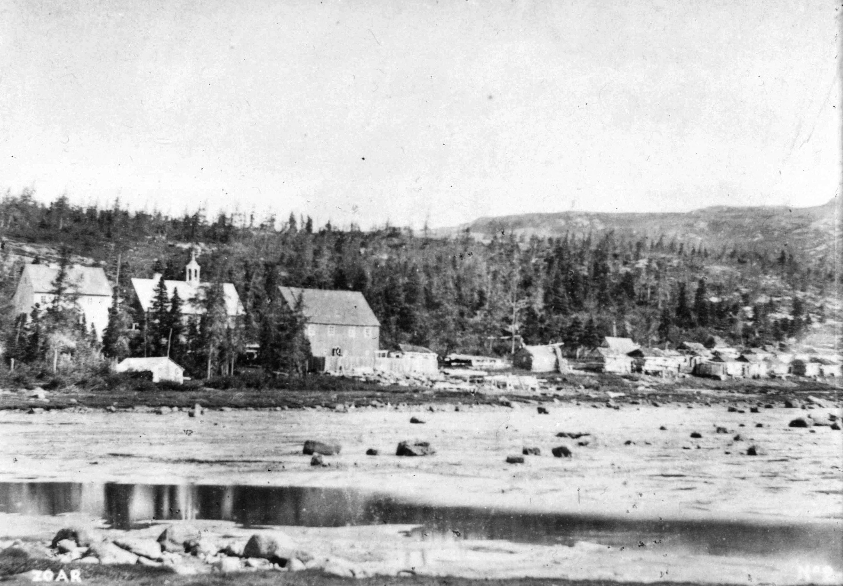 Black and white photograph of Zoar, Labrador, likely taken before the mission's closure in 1894.